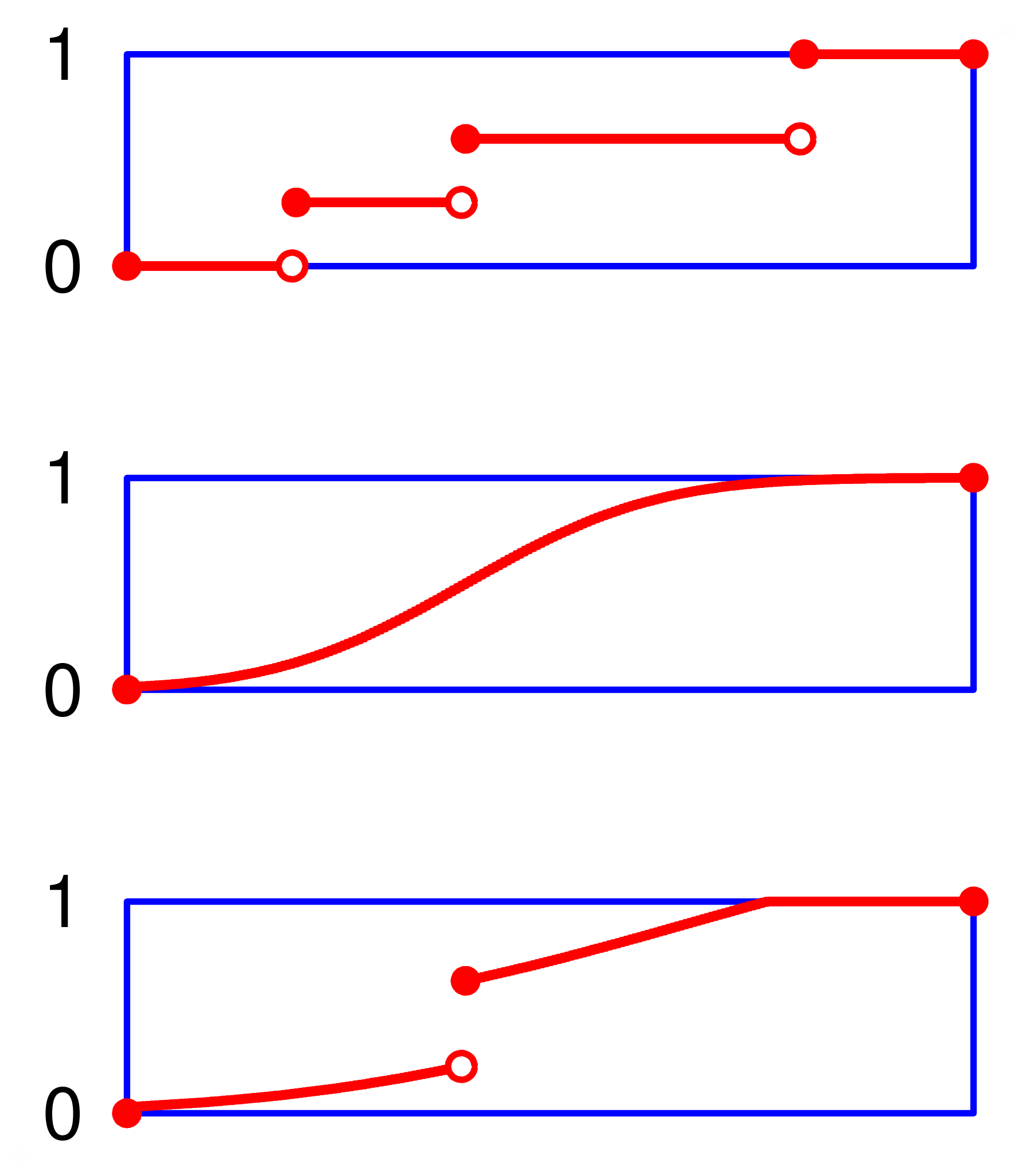 From top to bottom, the cumulative distribution function of a discrete probability distribution, continuous probability distribution, and a distribution which has both a continuous part and a discrete part. Cumulative distribution functions are examples of càdlàg functions.